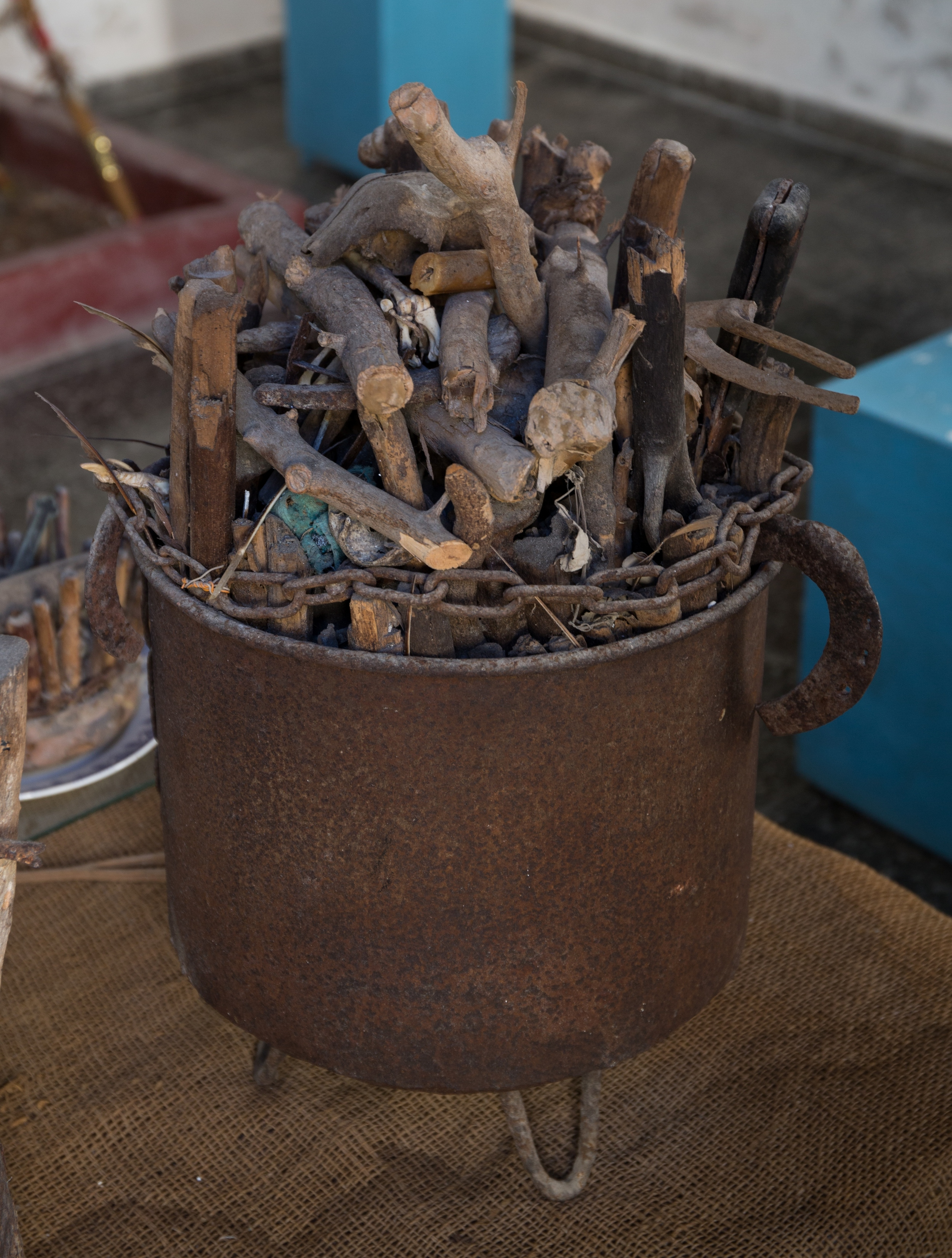 Example of a Nganga of Palo religion in Cuba (Museo municipal de Guanabacoa, Habana)